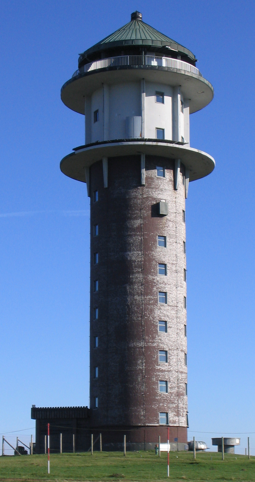 Old TV tower on the mountain Seebuck, near Feldberg, Black Forest